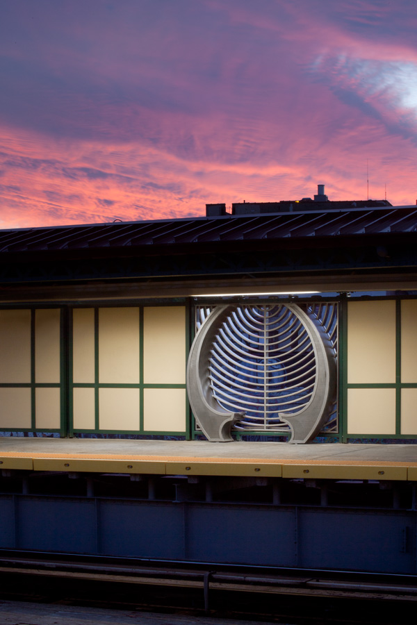 6 train service resumed to Elder Av. and St. Lawrence Av. on Oct. 16, 2011, after it had been suspended for station rehabilitation. The work is part of a project to rehabilitate five stations on the 6 line, including Whitlock Av, where new artwork, shown here, has been installed. This is Bronx River View (2010) by Barbara Grygutis. Photo by Metropolitan Transportation Authority / Peter Peirce.